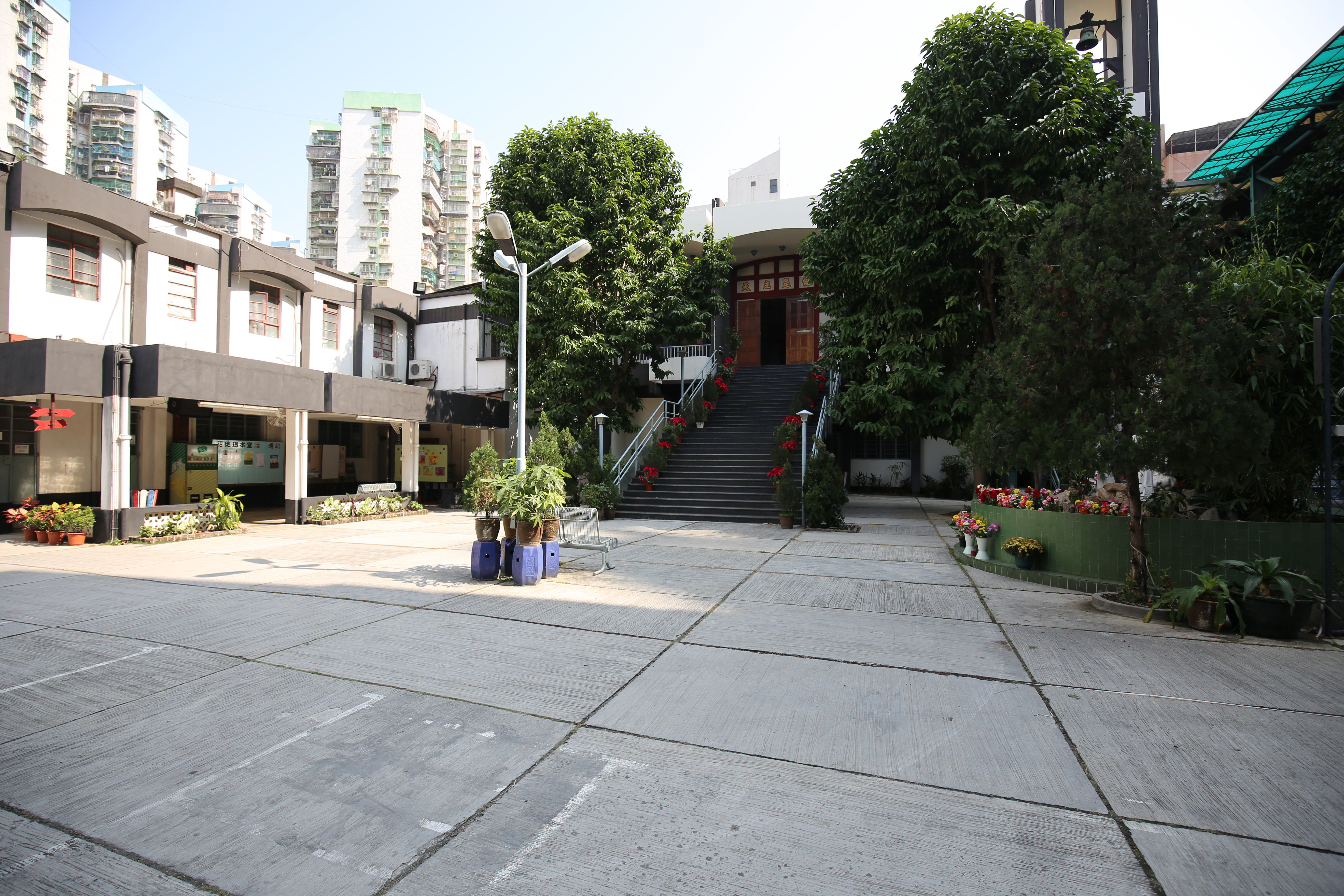 Fatima Church Macau